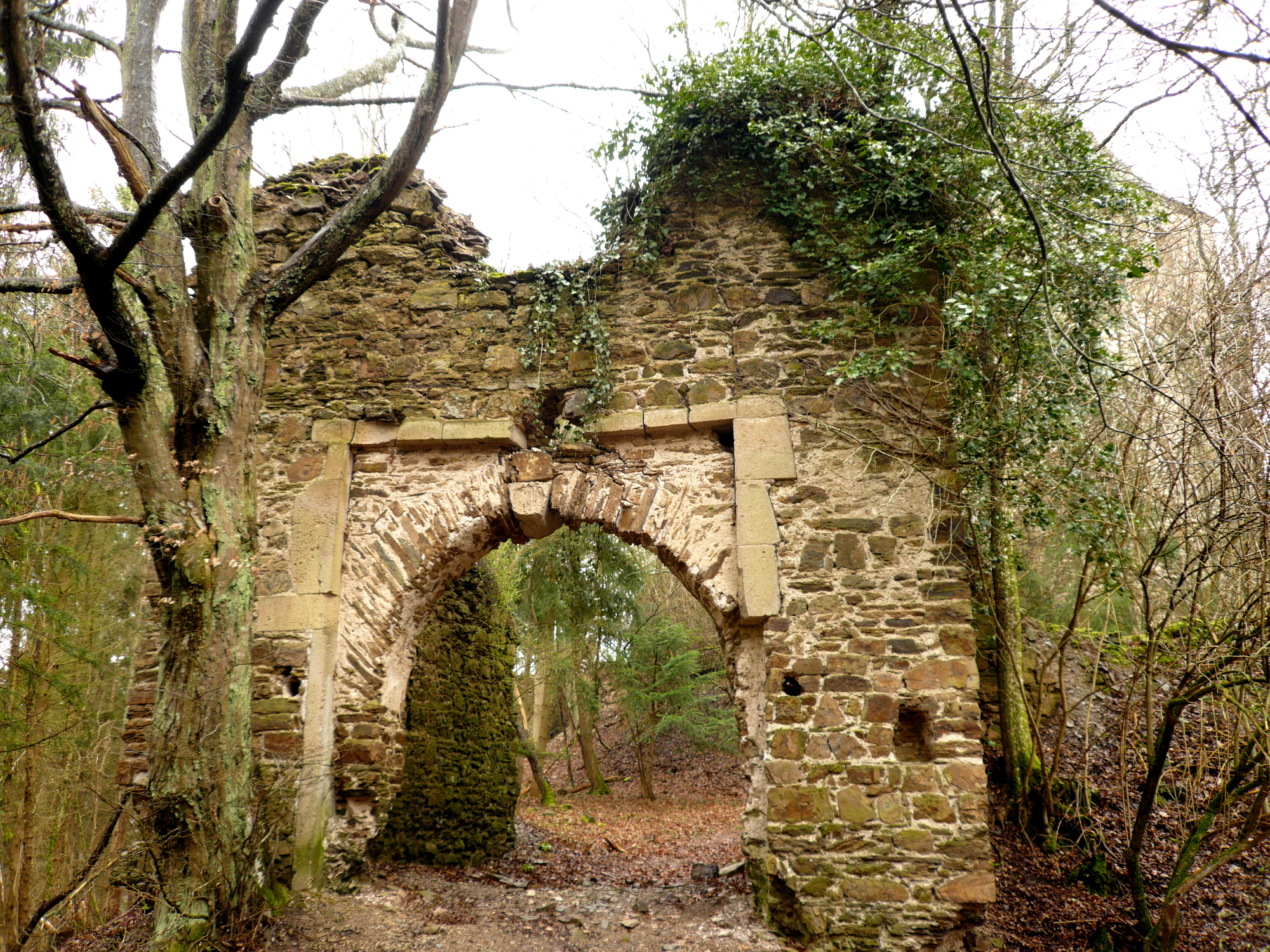 Castle Wensburg (Eifel), Entrance